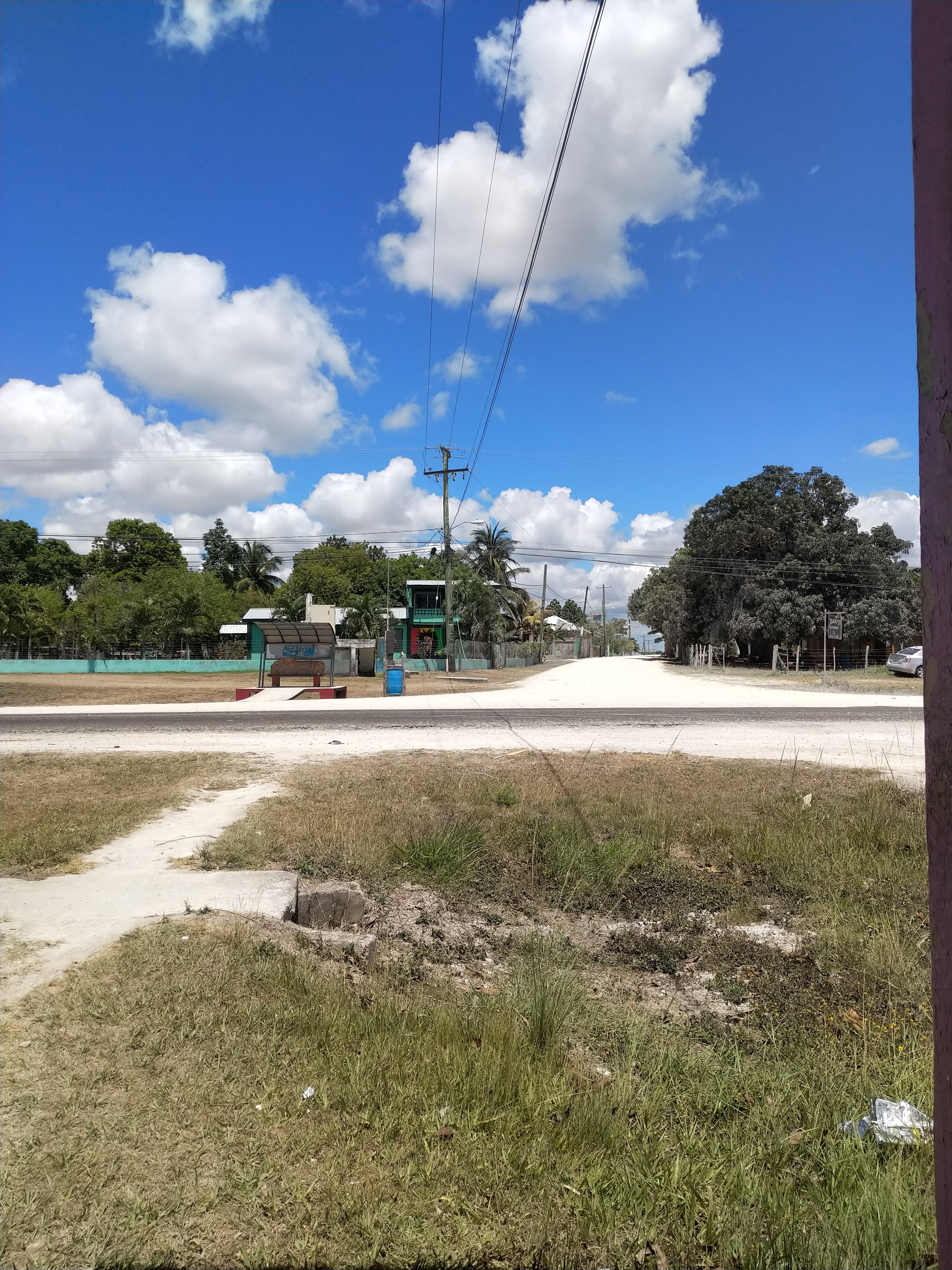 View of Carmelita and the Northern Highway. Photo: @j10lam